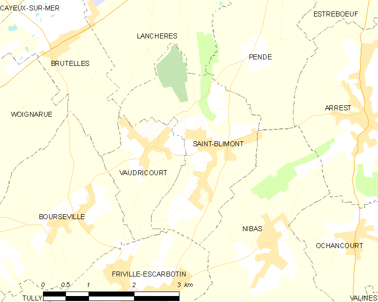 Map of French municipality Saint-Blimont